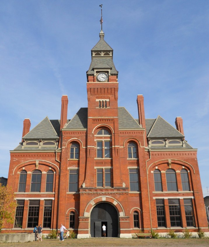 The clock tower and administration building of the Pullman Palace Car Company in Chicago, Illinois.